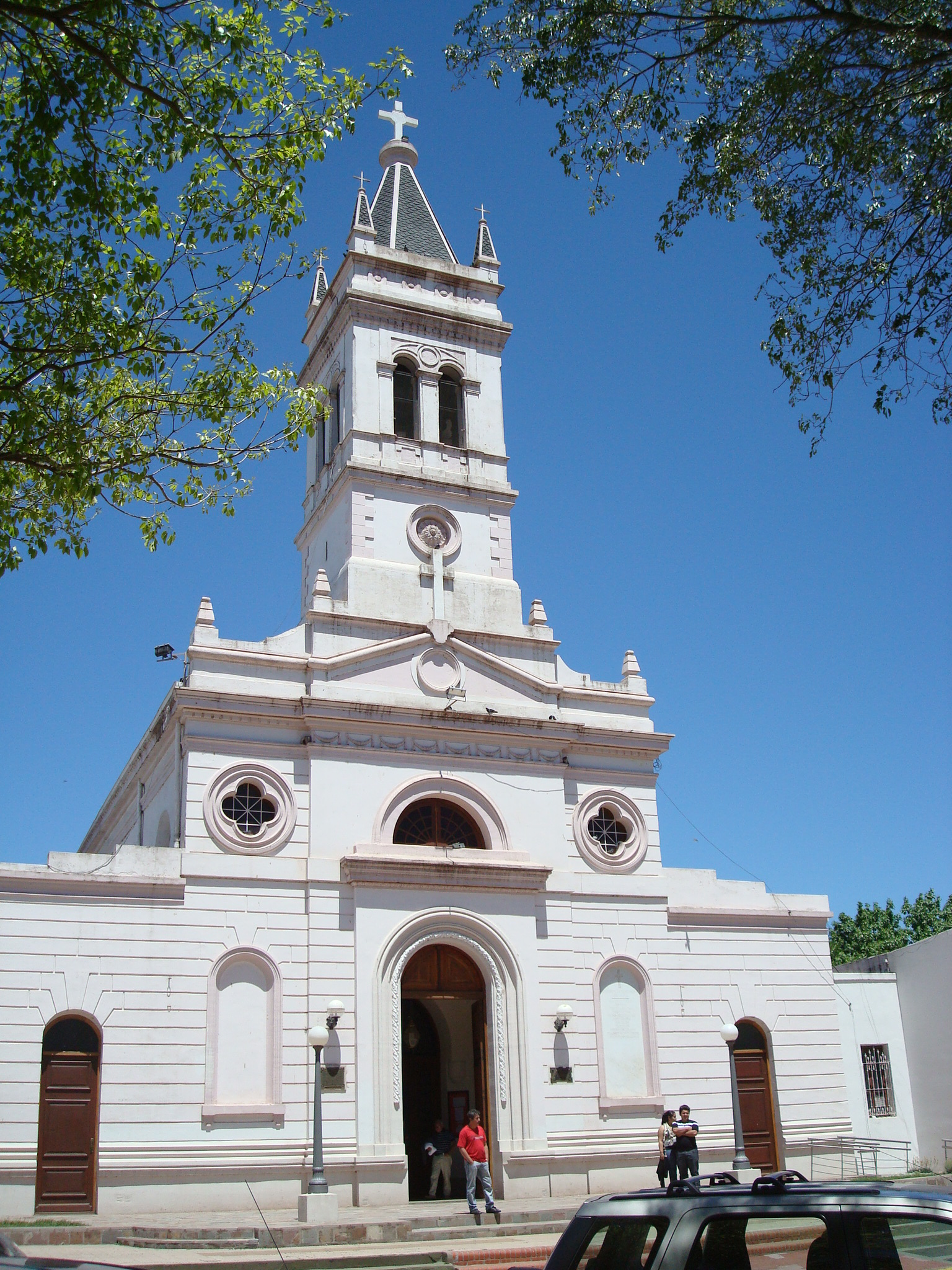 Church of Carcaraña